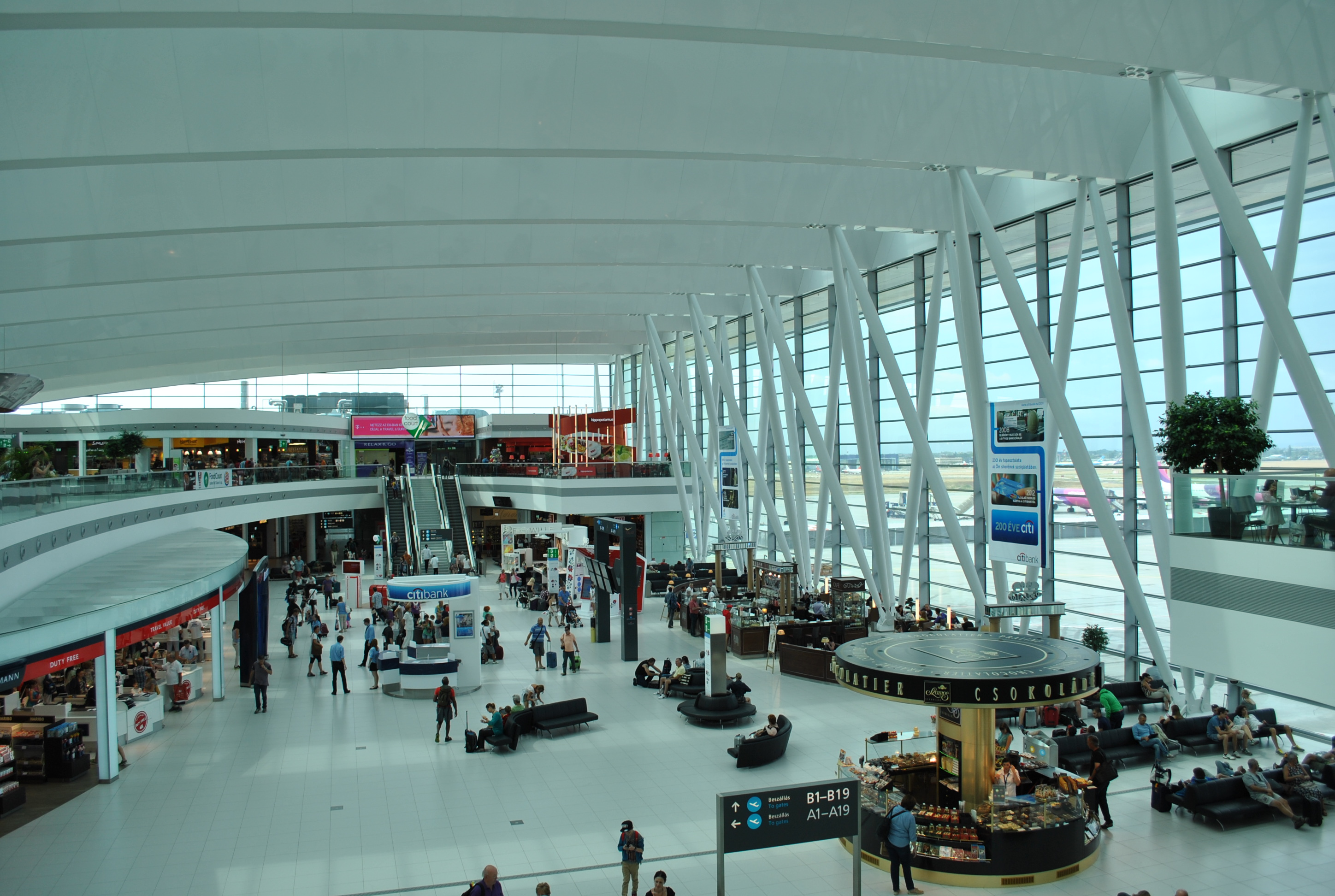 Budapest Liszt Ferenc International Airport inside of SkyCourt